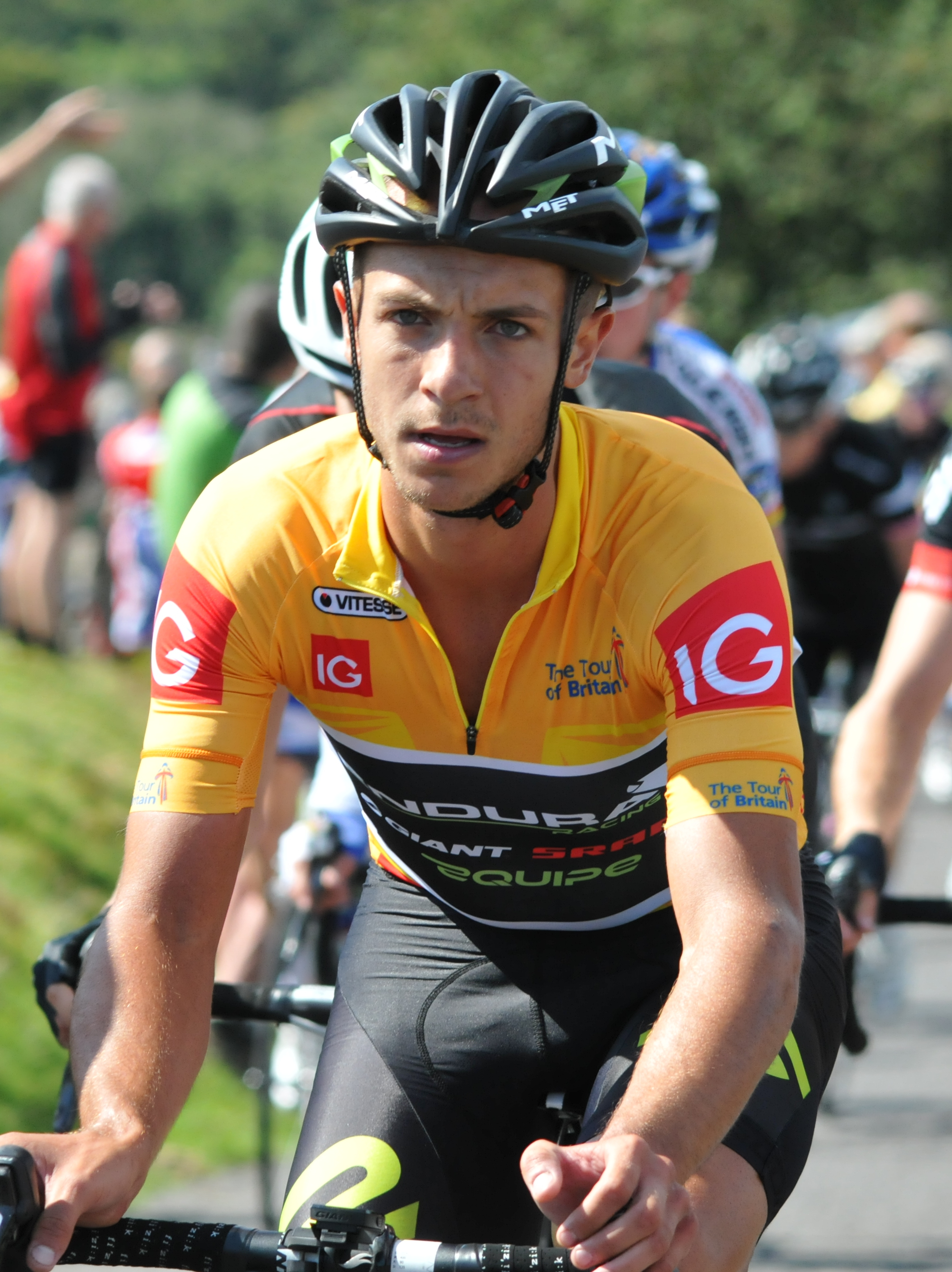 2012 09 15_2012 Tour of Britain_2297